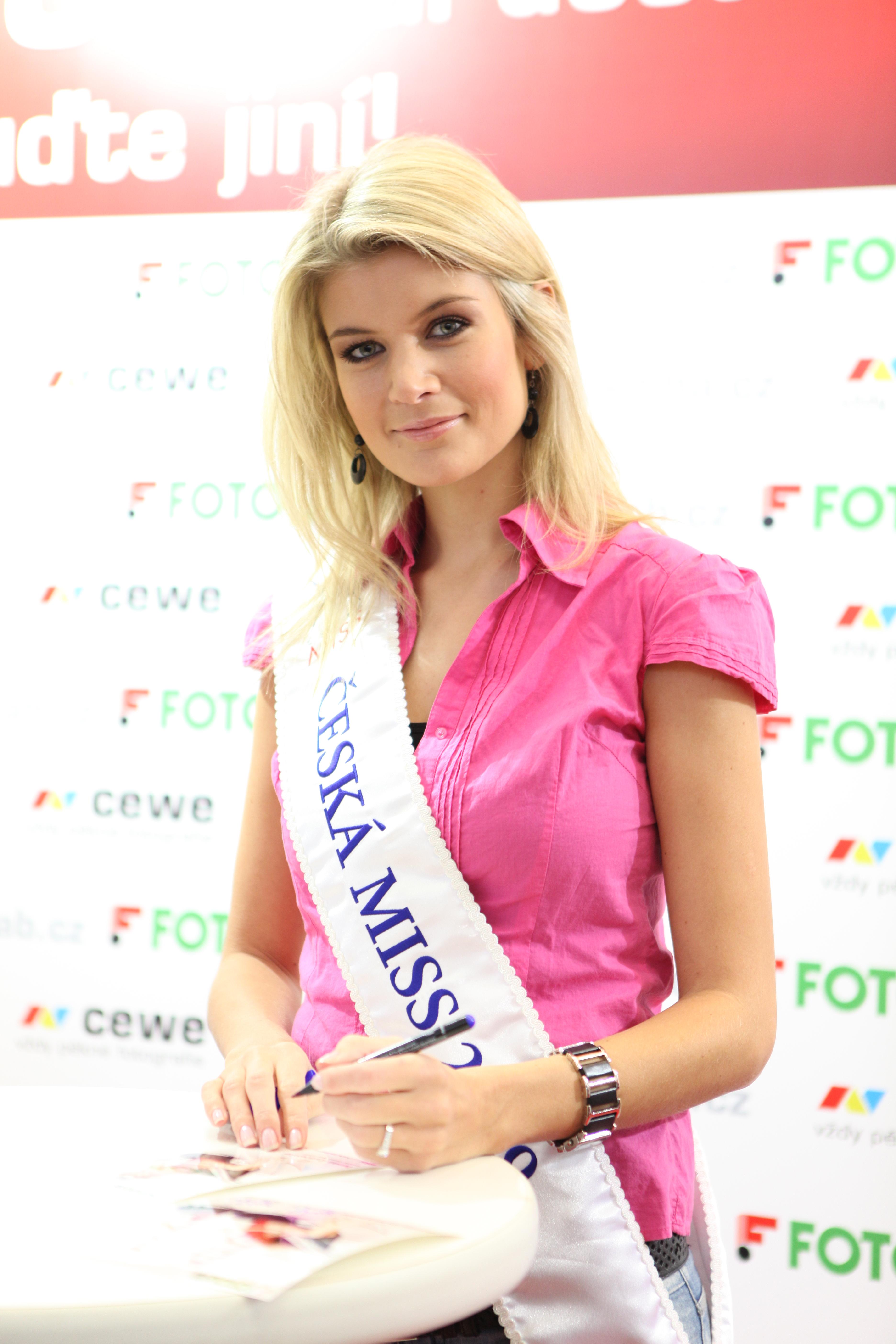 Iveta Lutovská, Czech model and winner of Czech Miss 2009 at Interkamera 2009 exhibition in Brno